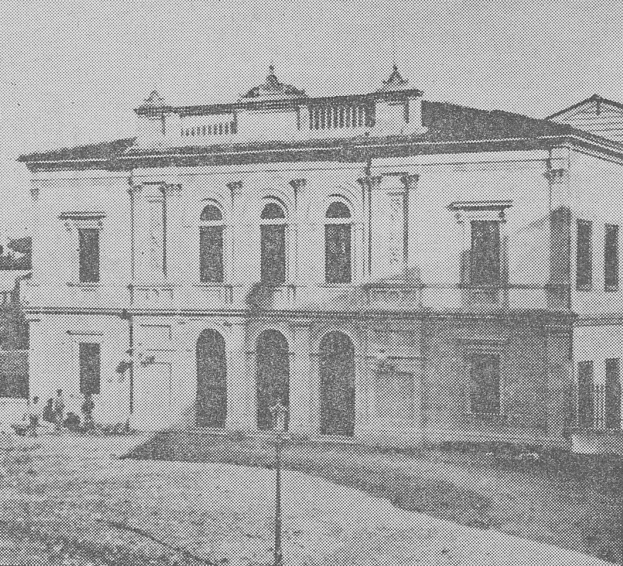 Old Politeama National Theatre of Pisa, Tuscany, Italy.